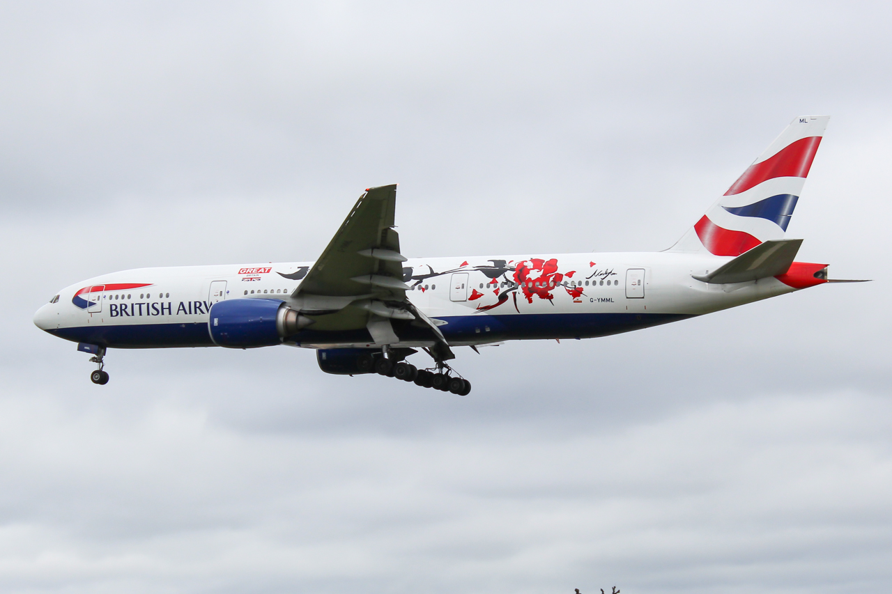 G-YMML Boeing 777 British Airways